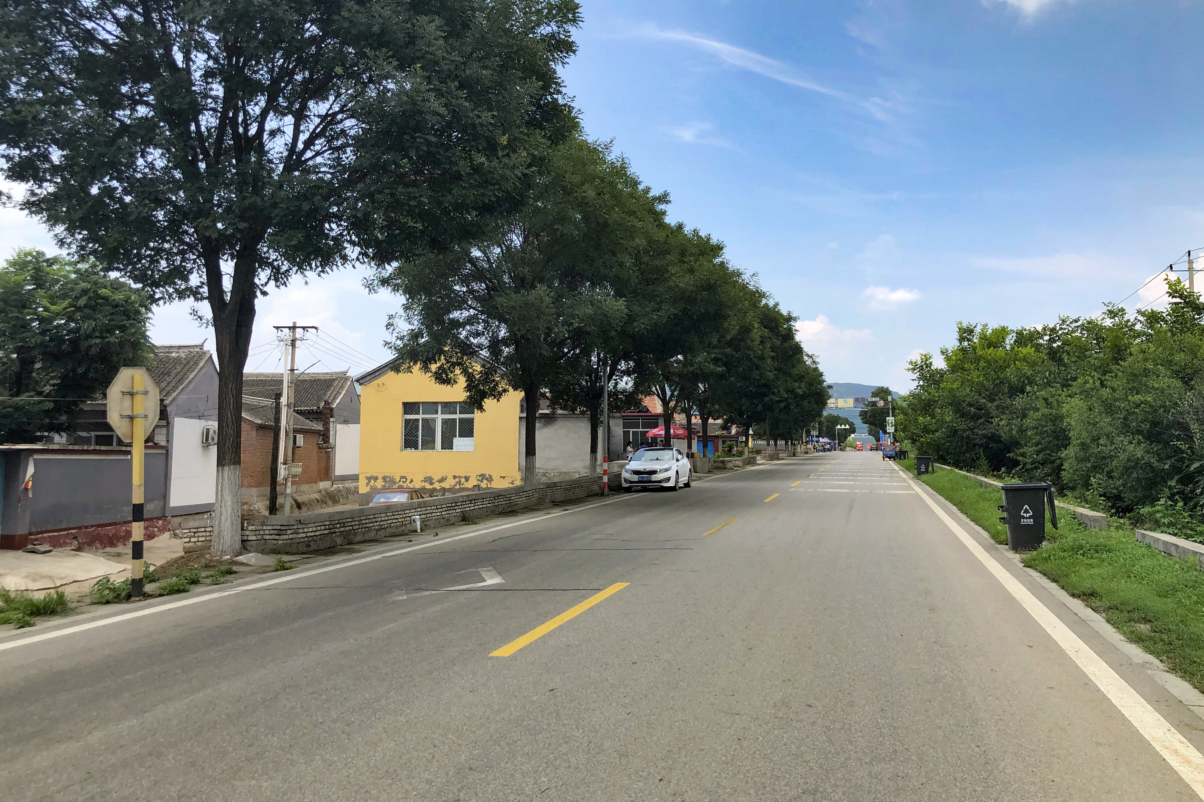 Dongshaoqu is the home of plums in Beijing.